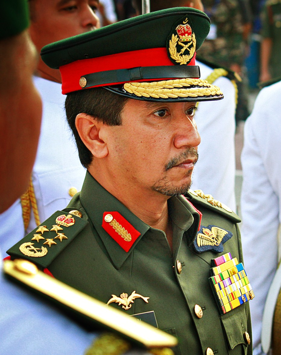 Hari Malaysia 2011 Gotcha! the closest I ever had.. Al-Wathiqu Billah, Tuanku Mizan Zainal Abidin Ibni Almarhum Sultan Mahmud Al-Muktafi Billah Shah. The 13th Yang di-Pertuan Agong of Malaysia. Today 16 September is declared a public holiday for Malaysia to commemorate the establishment of the Malaysian federation and marked the joining together of Malaya, North Borneo (Sabah) and Sarawak to form Malaysia as we call today is 'Hari Malaysia'.